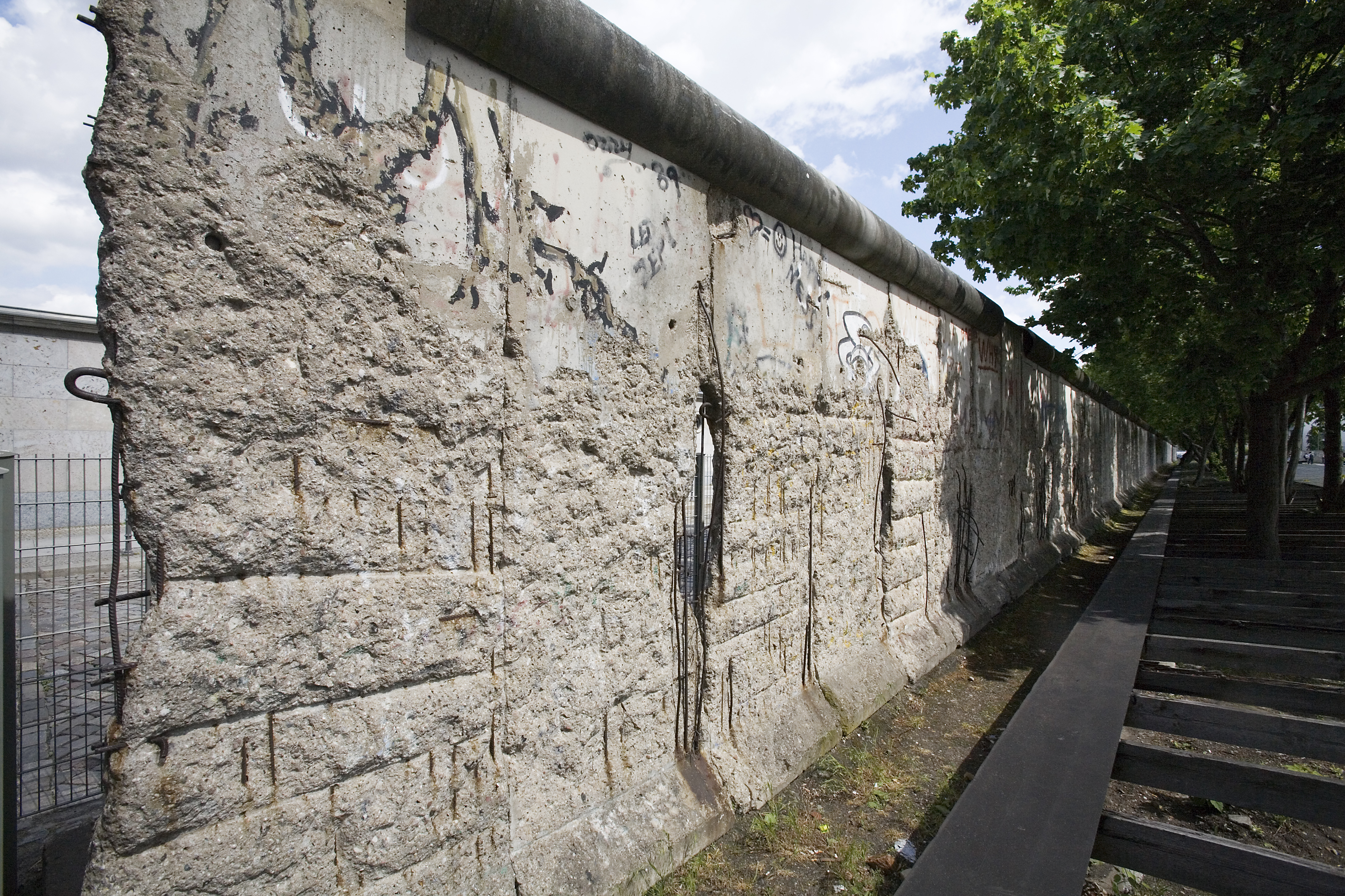 The Berlin Wall Museum at Niederkirchnerstraße. Das Mauer. Berlin Germany